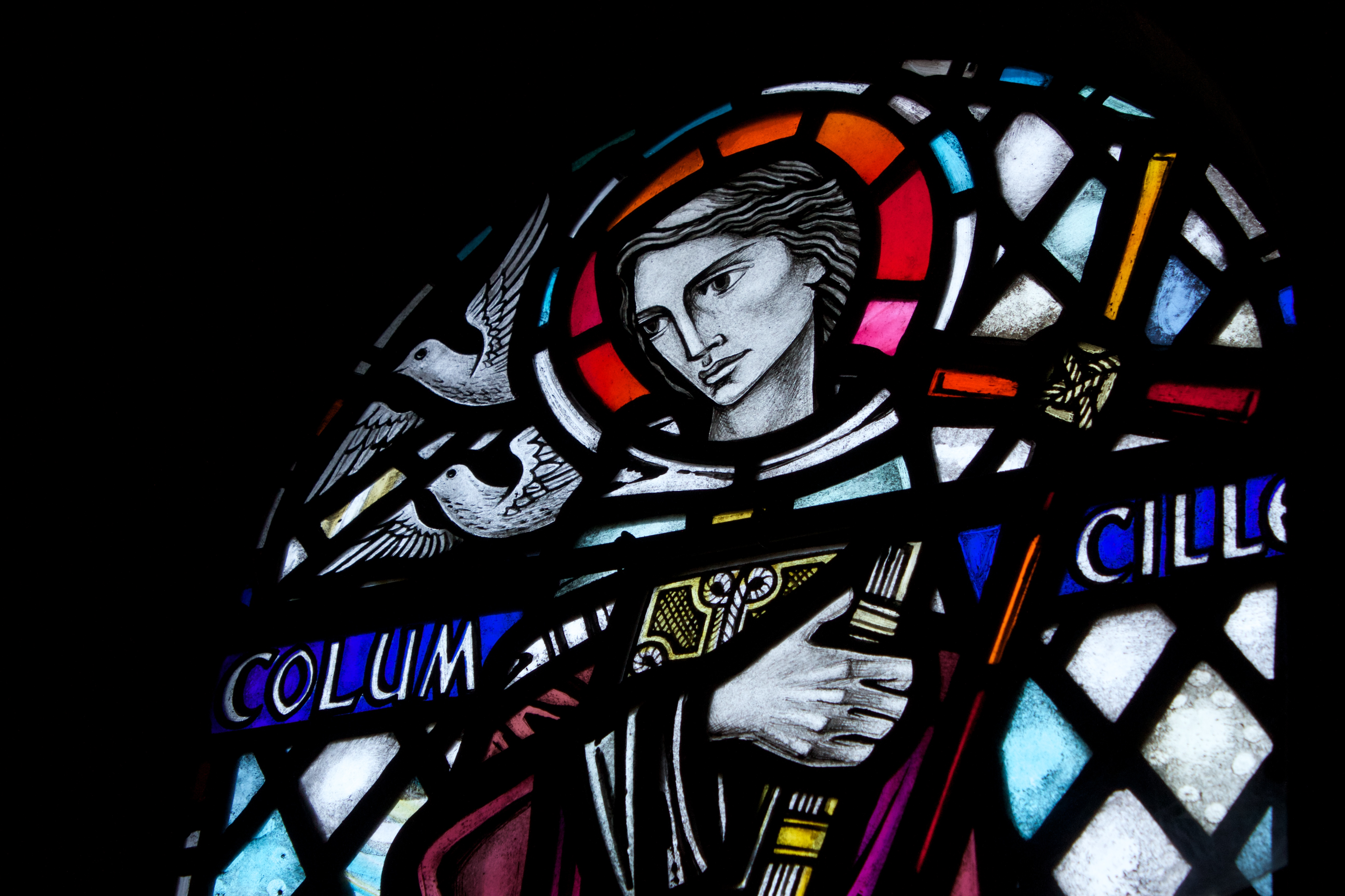 St Columba Stained glass window